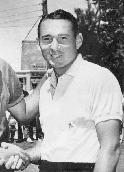 1959 MI Buick Open Golf Tournament had Art Wall & Dow Finsterwald Press Photo